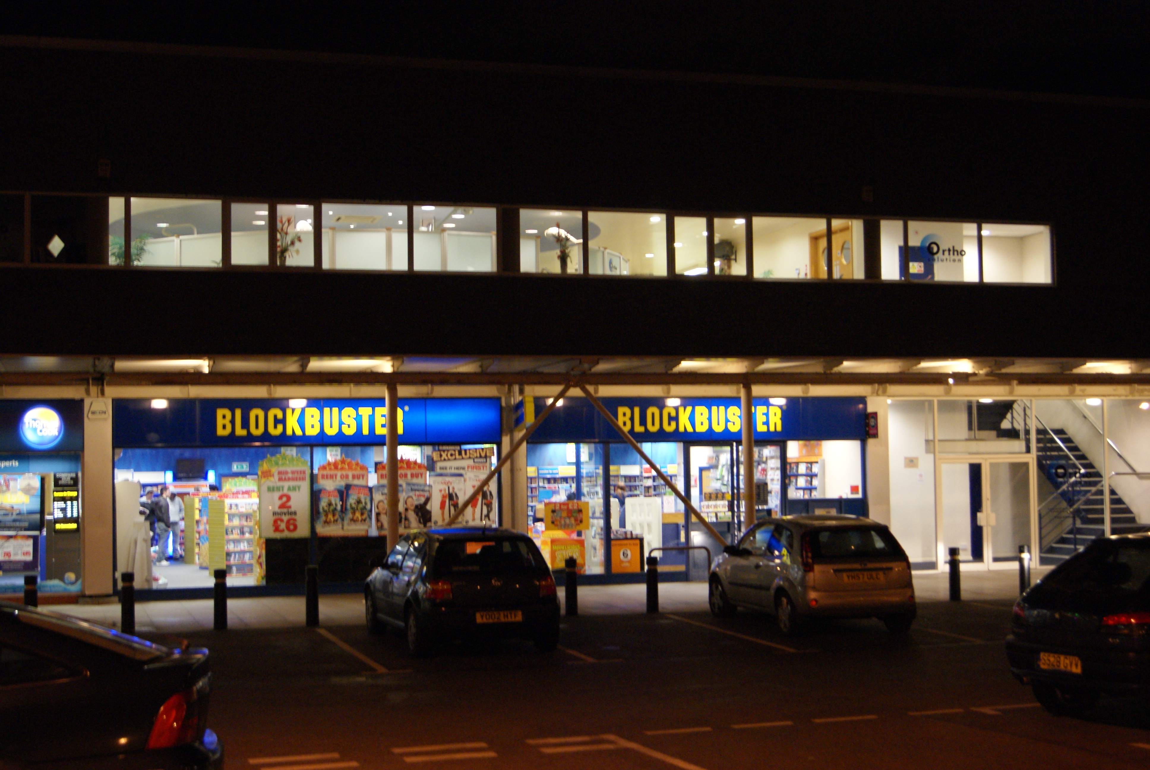 Blockbuster Video shop at the Moor Allerton district centre, Moor Allerton, Leeds, UK. Taken on the evening of Wednesday the 10th of February 2010.